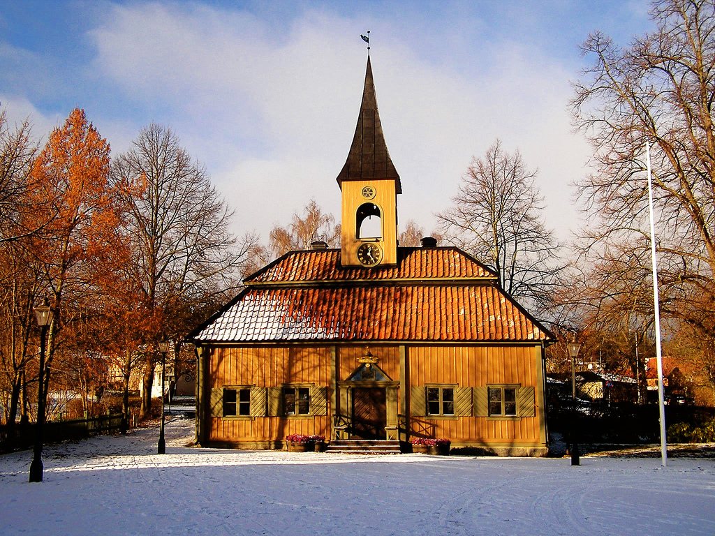 Sigtuna, Sweden's oldest town Fall 2005